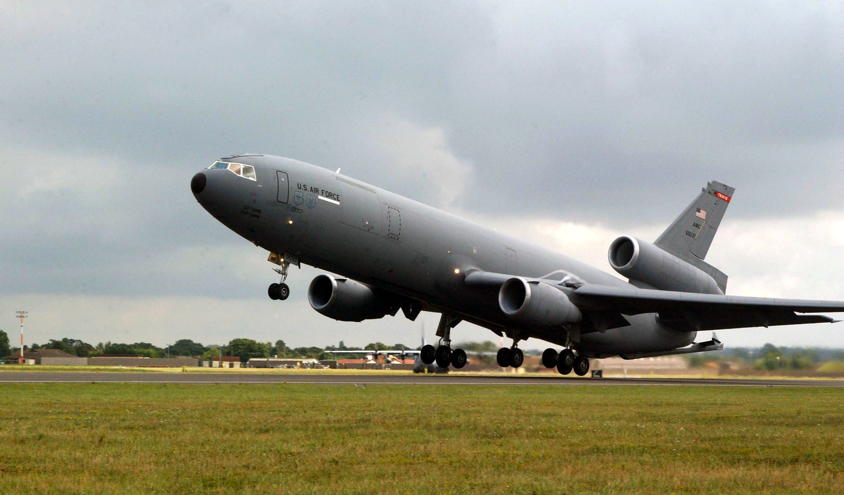 ROYAL AIR FORCE MILDENHALL, England -- A KC-10 Extender from Travis Air Force Base, Calif., takes off on a mission. The 100th Air Refueling Wing here provides operational support, and the base serves as a transiting point for personnel, aircraft and equipment destined for Europe, Africa and Southwest Asia.